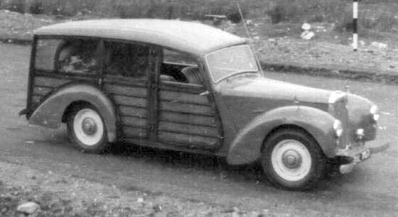 Photo of our family Lea Francis taken in the early 1960s, on holiday in Scotland. By Michael Gardner.